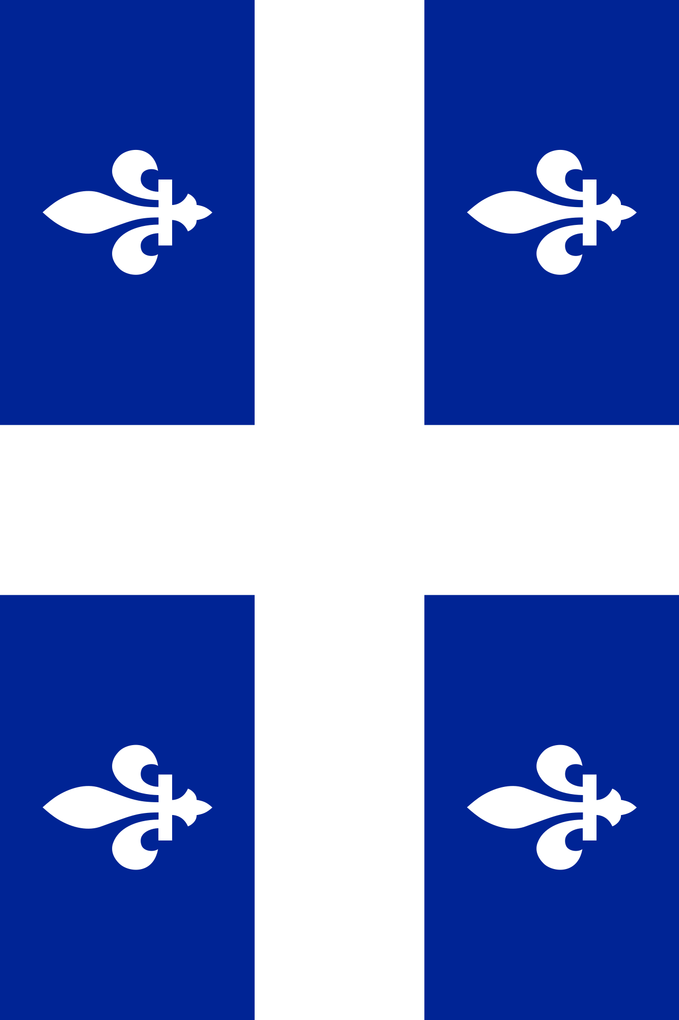 Flag of Quebec (vertical)